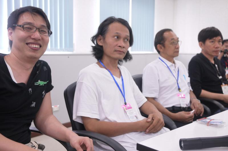 From left: Ekaluck Peanpanawate, Pairoj Teeraprapa, O-pas Boonkrongsook and Parinya Rojarayanond, sitting as the judge panel, part of the Thai Typeface Competition 2011